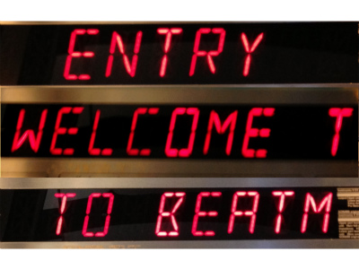 The beatmania IIDX is a Rhythm game that challenges a player's sense of rhythm.